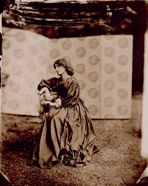 Jane Morris. Photo from Birmingham Museums and Art Gallery.